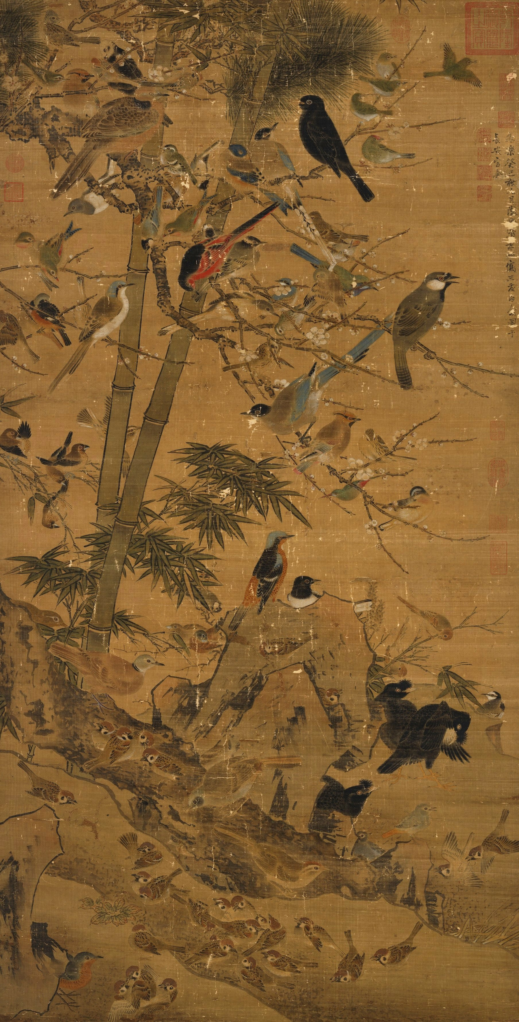 The painting depicts the "Three Friends of Winter"—represented by pine, bamboo, and plum blossom—and 97 birds of various species. Several but not all of the birds have been identified. Those identified include the Spotted-necked Dove (A, 1), Japanese Waxwing (A, 1), Yellow-billed Grosbeak (B, 1), Eurasian Blackbird (A, 1), Japanese White-eye (A, 4), Scarlet Minivet (C, 2), Black-throated Laughingthrush (A, 2), Azure-winged Magpie (A, 2), Japanese Waxwing (A, 1), Fork-tailed Sunbird (D, 1), White-throated Rock Thrush (A, 3), Scaly-breasted Munia (A, 4), Red Turtle Dove (A, 1), Vinous-throated Parrotbill (A, 2), Crested Myna (A, 3), White Wagtail (A, 1), Slaty-blue Flycatcher (D, 2), Eurasian Tree Sparrow (A, 28), White-whiskered Laughingthrush (D, 1), Rufous-tailed Rock Thrush (A, 1), Orange-bellied Leafbird (A, 1), Great Tit (A, 3), Oriental Magpie Robin (A, 2), Red-billed Leiothrix (A, 3), Chinese Hwamei (A, 1), Siberian Blue Robin (C, 1), Arctic Warbler (A, 1), Chestnut-cheeked Starling (D, 1), Barred Buttonquail (D, 1), Light-vented Bulbul (A, 1), Japanese Bush Warbler (D, 3), Common Redpoll (A, 1), Oriental Skylark (A, 1), Masked Laughingthrush (A, 1), Greater Short-toed Lark (C, 1), and Daurian Redstart (A, 2). (A) Corresponding to a known bird species(B) Somewhat generalized, but still an identifiable bird species(C) Identifiable, but problematic and not with complete certainty(D) Only roughly identifiable, bird species cannot be confirmed See the reference for more information.